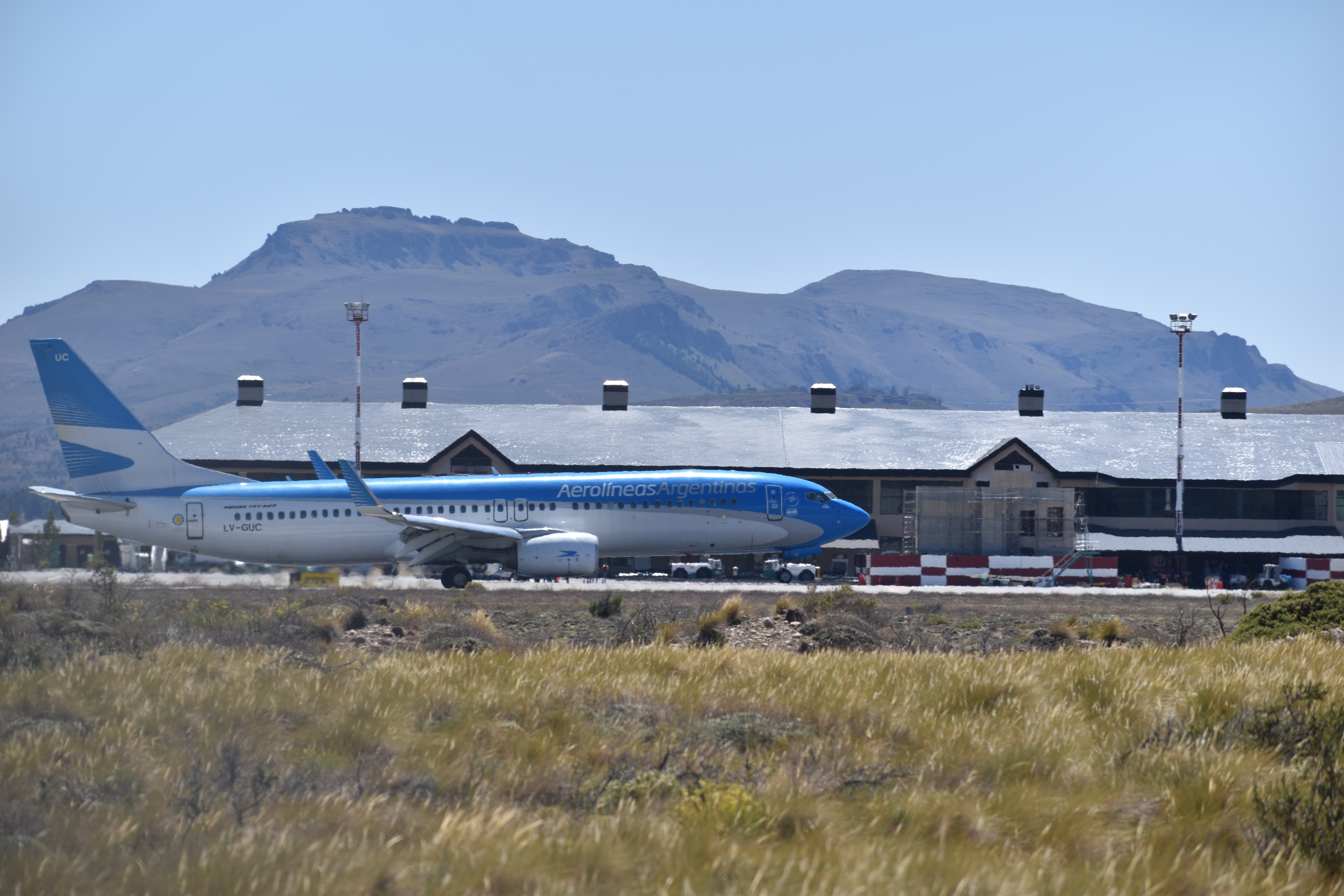 Boeing 737-800 LV-GUC of Aerolíneas Argentinas landing at Bariloche Airport.